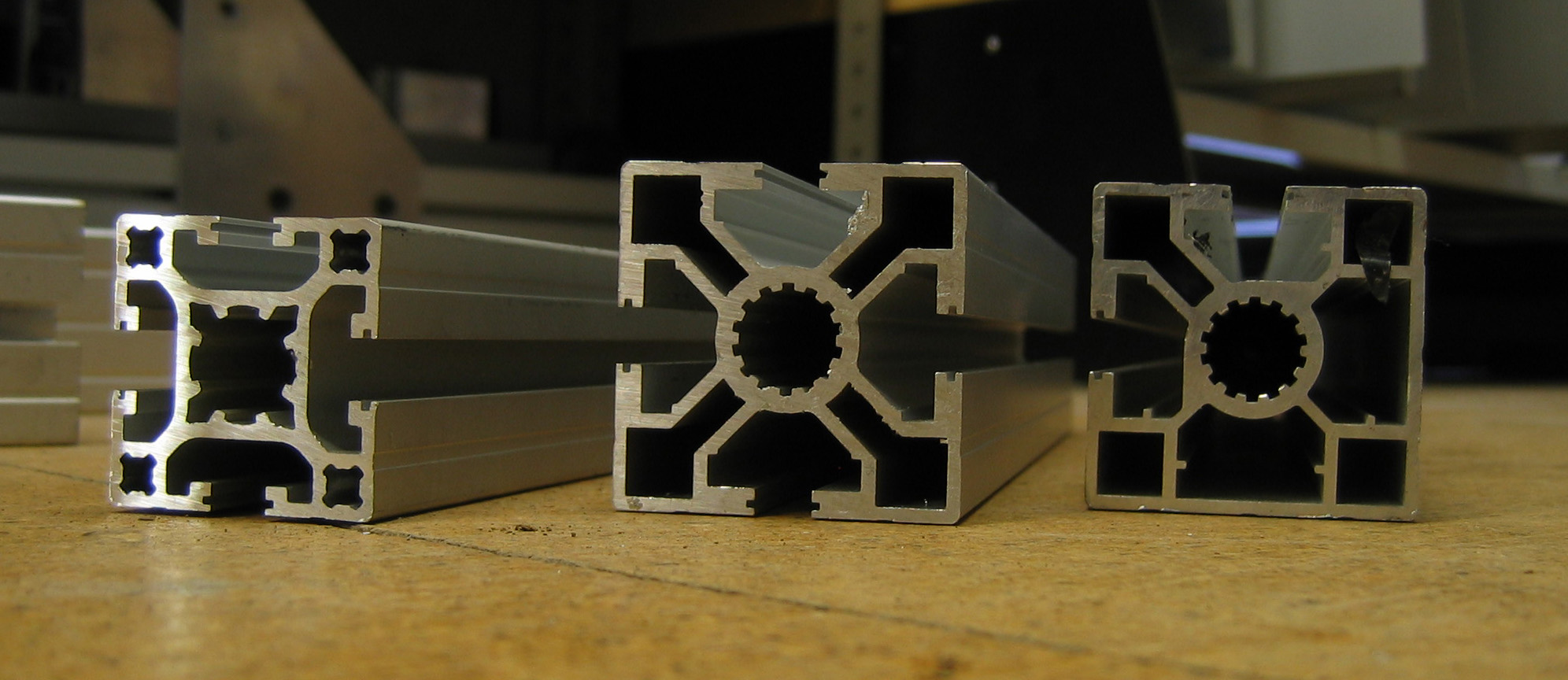 Three pieces of extruded aluminium. They are intended to be bolted together, using special connectors which fit into the ends and/or side groves, allowing for quick and neat construction of metal structures.